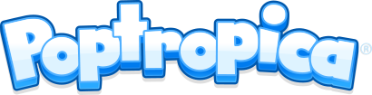 Poptropica logo.